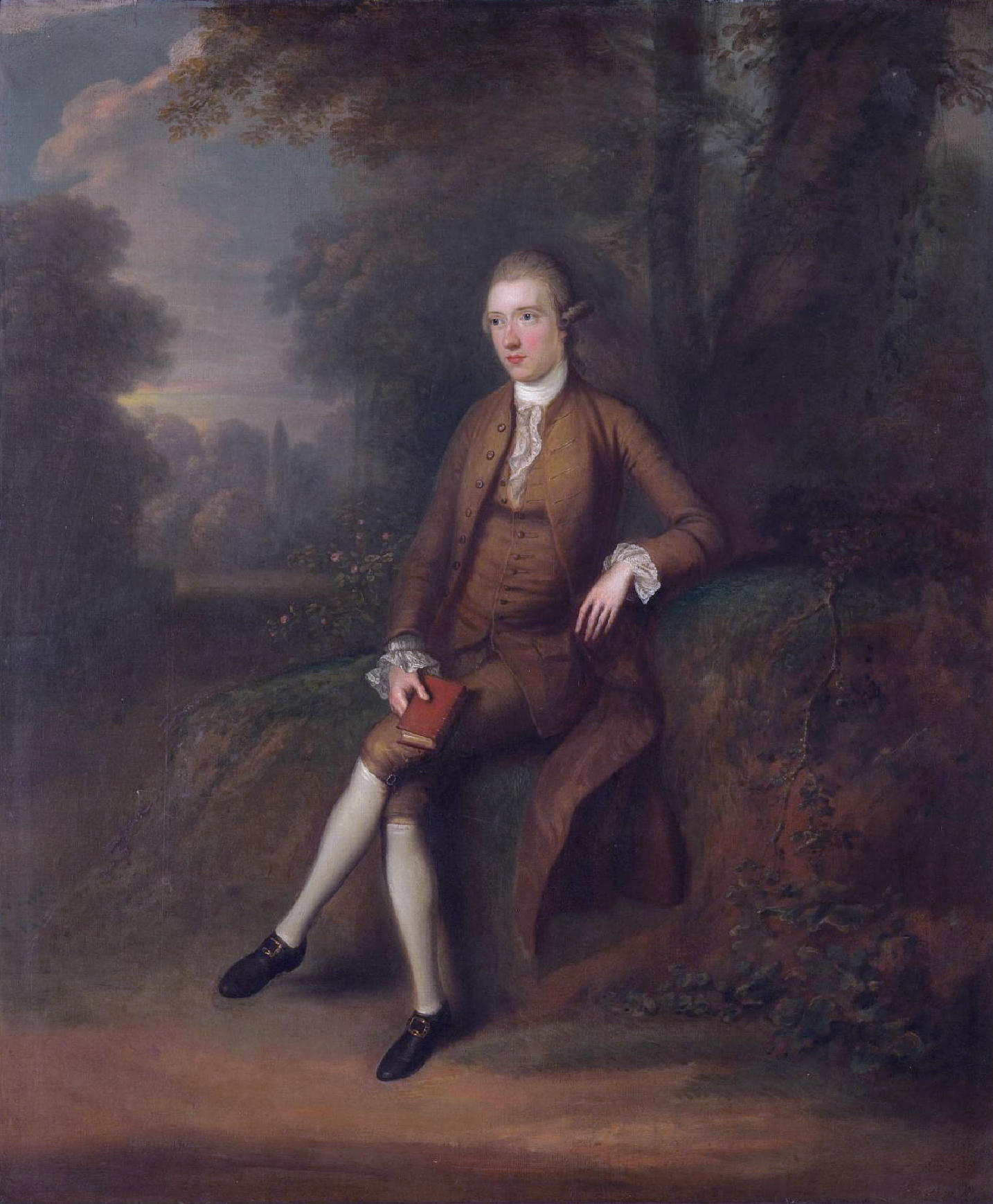 Hercules Rowley, 2nd Viscount Langford (1737-1796) oil on canvas 76 x 61 cm